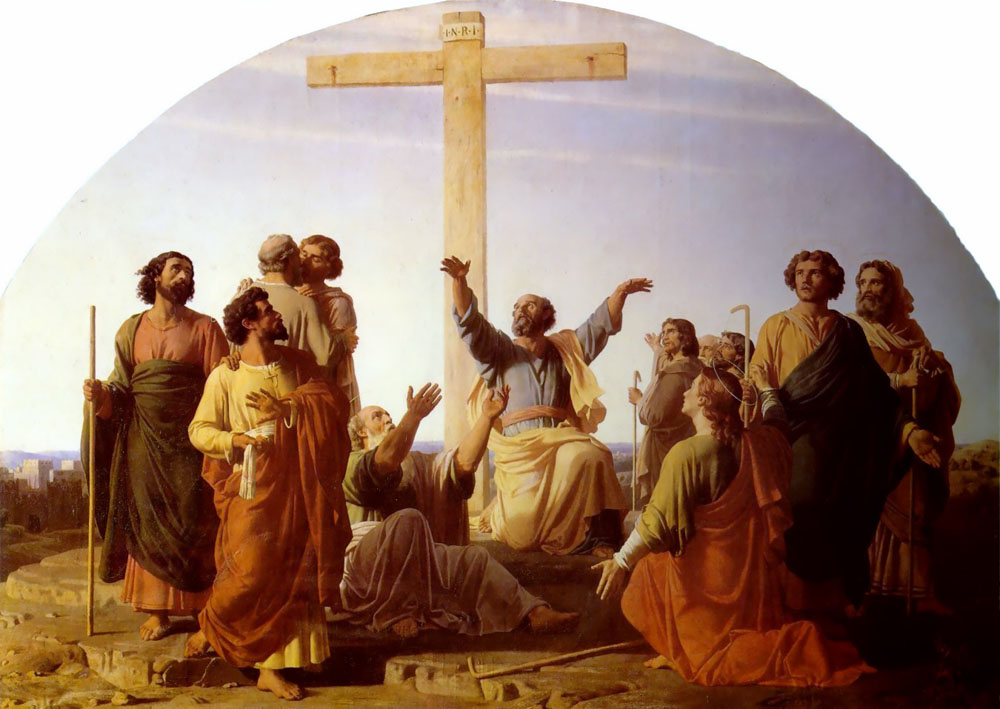 The Departure of the Apostles to Preach the Gospel